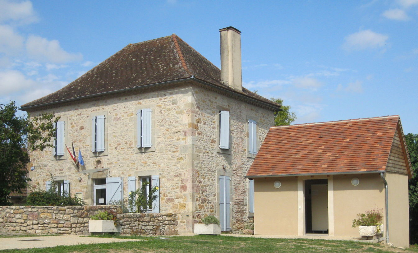 Town hall of Béduer (Lot, France).